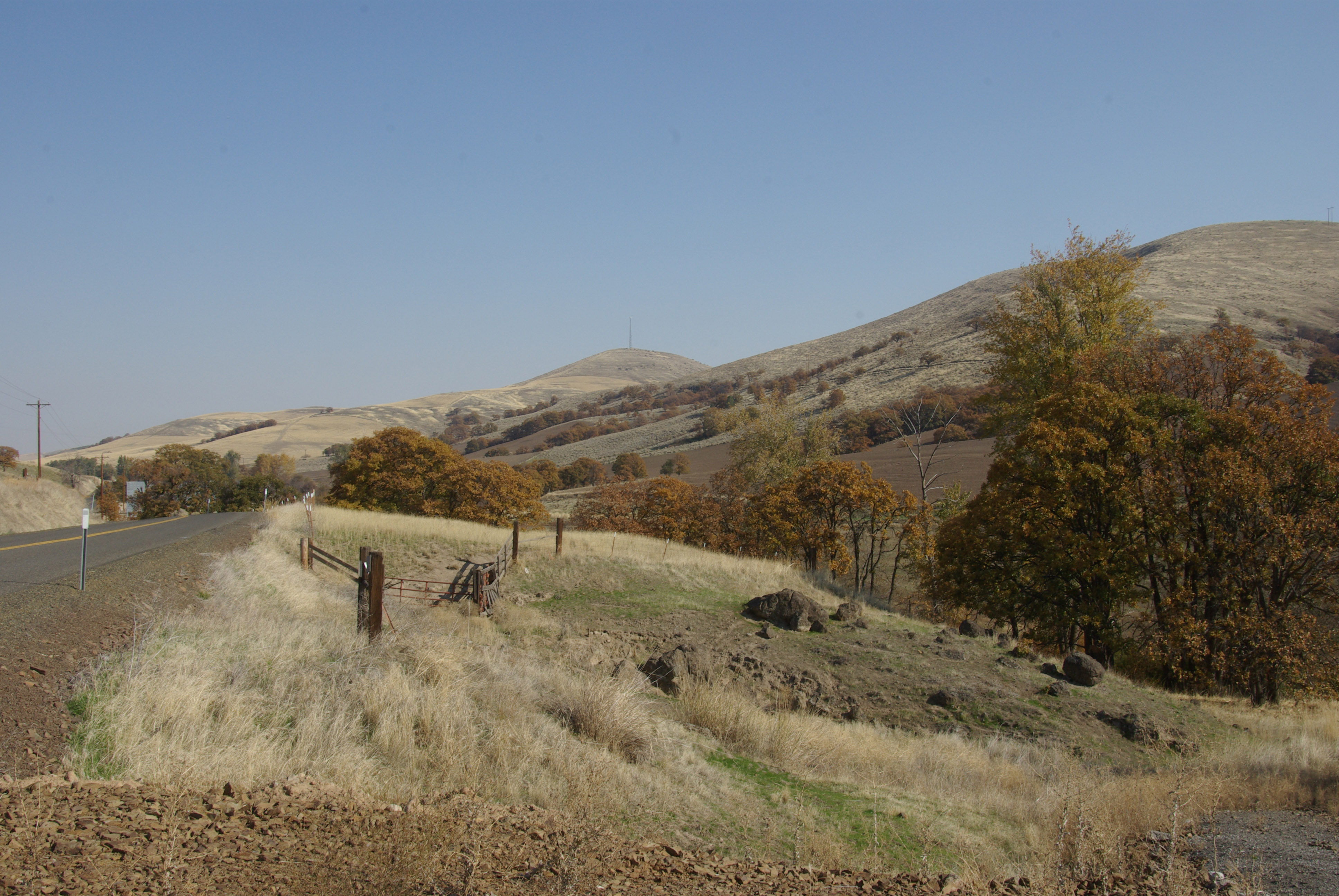 Wheat fields in the extreme western edge of the wheat growing area in central Wasco County near Pine Hollow Note tilled area in center of photo. Also in this fall photo much of the ridge in the background is stubble. Taken looking east.